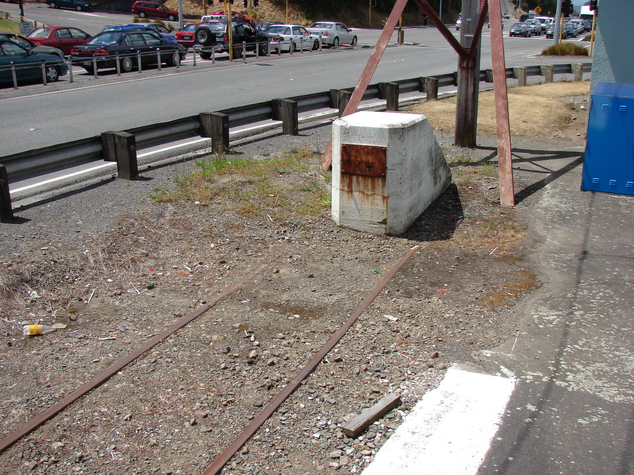 End of the Melling Branch. Photographed by Matthew25187 on 2007-12-24.